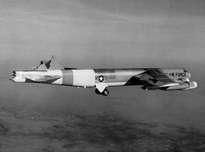 A Boeing B-52H Stratofortress (61-023) flying with its vertical stablizer sheared off. The aircraft was being used as a testbed to identify structural weaknesses in the airframe when the event occurred. The crew, with the assistance of Boeing engineers on the ground, was able to land the aircraft safely.